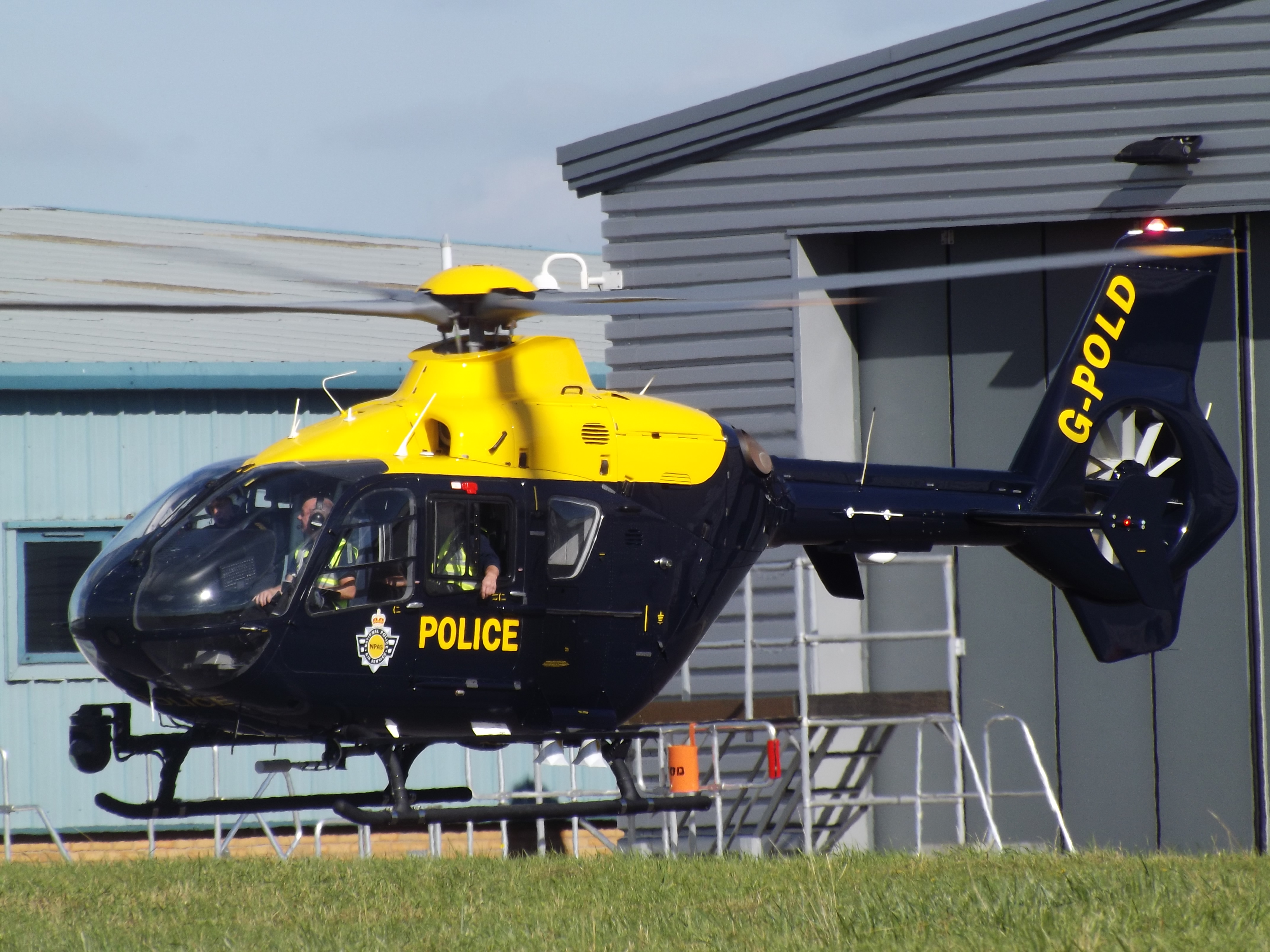 At Gloucestershire Airport.